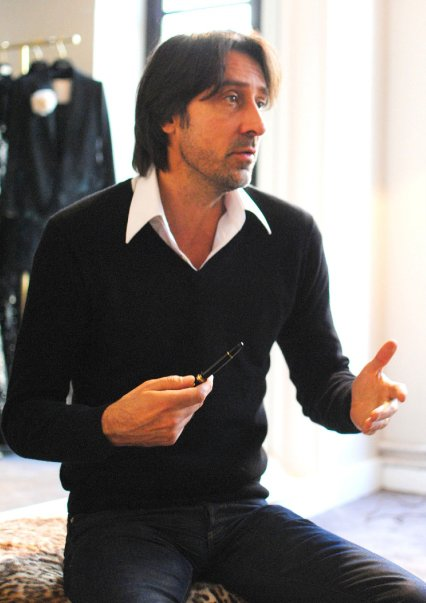 Portrait of haute couture designer Christophe Josse